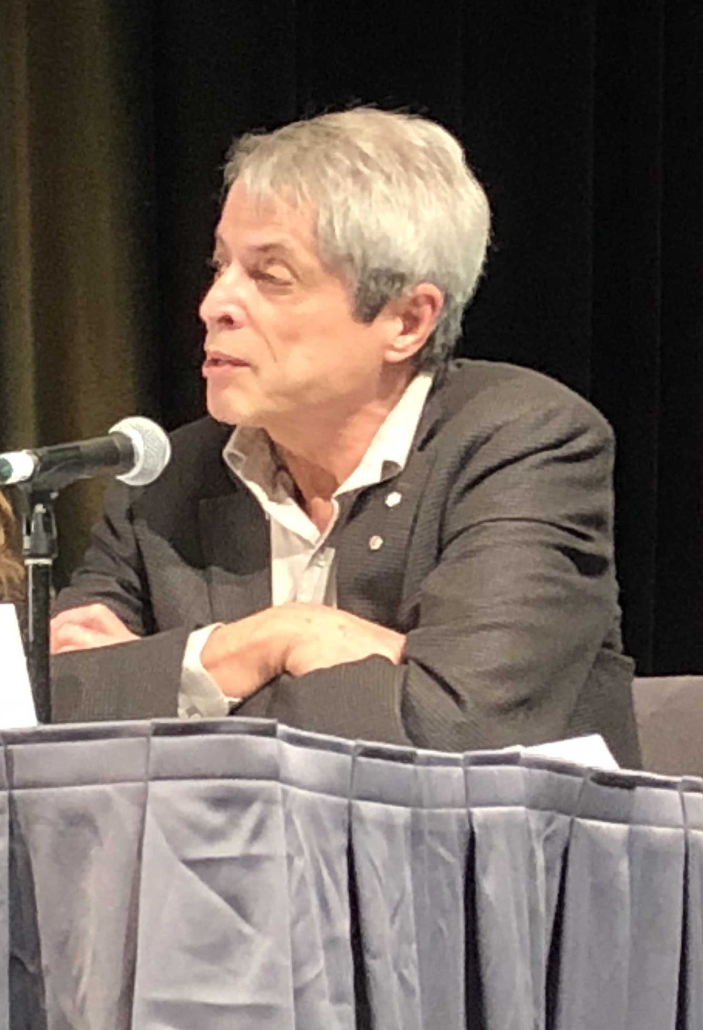 Lorne Trottier at the 2018 Trottier Public Science Symposium. October 29, 2018, Montreal.